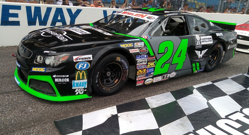 The car used by Anthony Kumpen after winning the first Elite 1 NASCAR Whelen Euro Series race in 2017 at Raceway Venray.